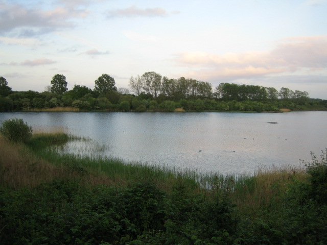 Calvert Jubilee Nature Reserve This nature reserve which opened in 1978 was once an old extraction pit for clay used locally for brick manufacture. Over the last 50 years, the 200 hectare standing open water habitat has become a haven for large numbers of over-wintering wildfowl and waders. The reed beds provide ideal habitat for the scarcely seen bittern, and the nutrient poor clay-capped land around the lake provides the right conditions for wildflowers and good numbers of rare butterflies including the grizzled and dingy skippers, The reserve is managed by the Berks, Bucks & Oxon Wildlife Trust